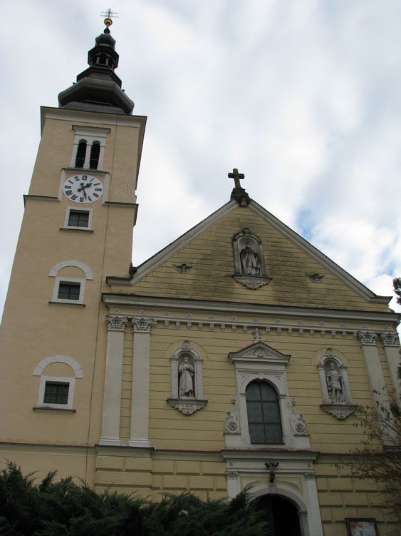 St. Nicholas Church, Jastrebarsko, Zagreb County, Croatia